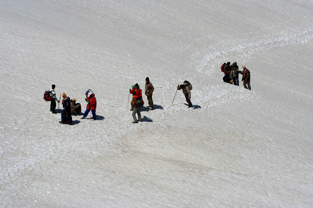 Every face tell his/her own story! Struggling trekkers at Sar Pass Trek in Kullu District of Himachal Pradesh, India. (around 13,500 ft.). It was 10.40 hrs & lot of trekkers were still on way, crossing Sar Pass. Walking since 5 a.m. in the morning, almost on the snow, has taken charm off the magic of snow & snow walking. Melting snow, slippery footmarks, exhaustion etc. were all making things difficult. Every face is telling his/her own story. But hardship & pain is only temporary, while Joy & thrill of crossing Sar Pass is forever. This day (10/5/07) shall remain as one of the best in their life. I was a bit fortunate to have reached Biskeri Ridge (13,800 ft.) at 9.30 a.m. after crossing Sar Pass & took this picture from there.